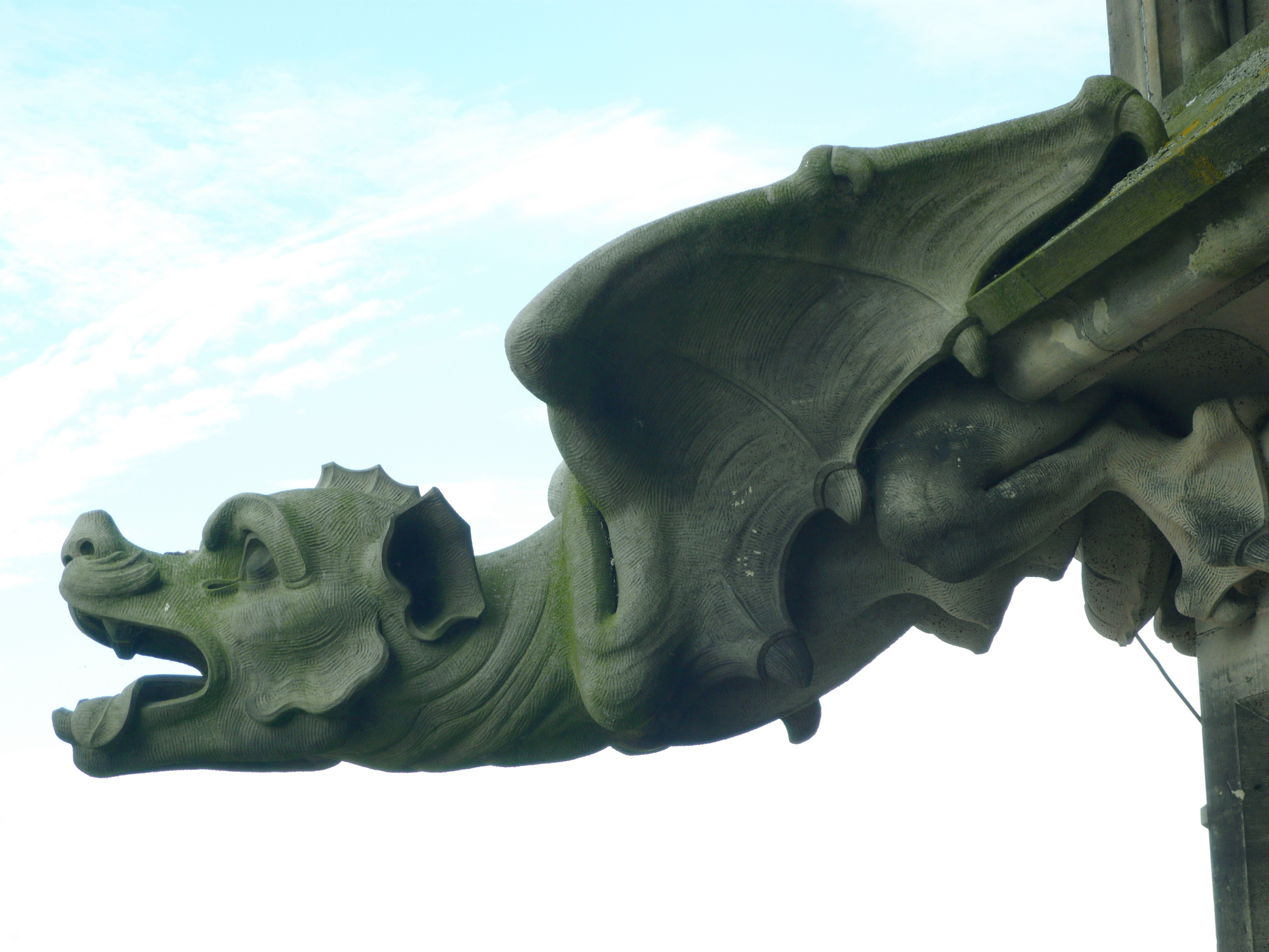 Gargoyle on the cathedral at Ulm